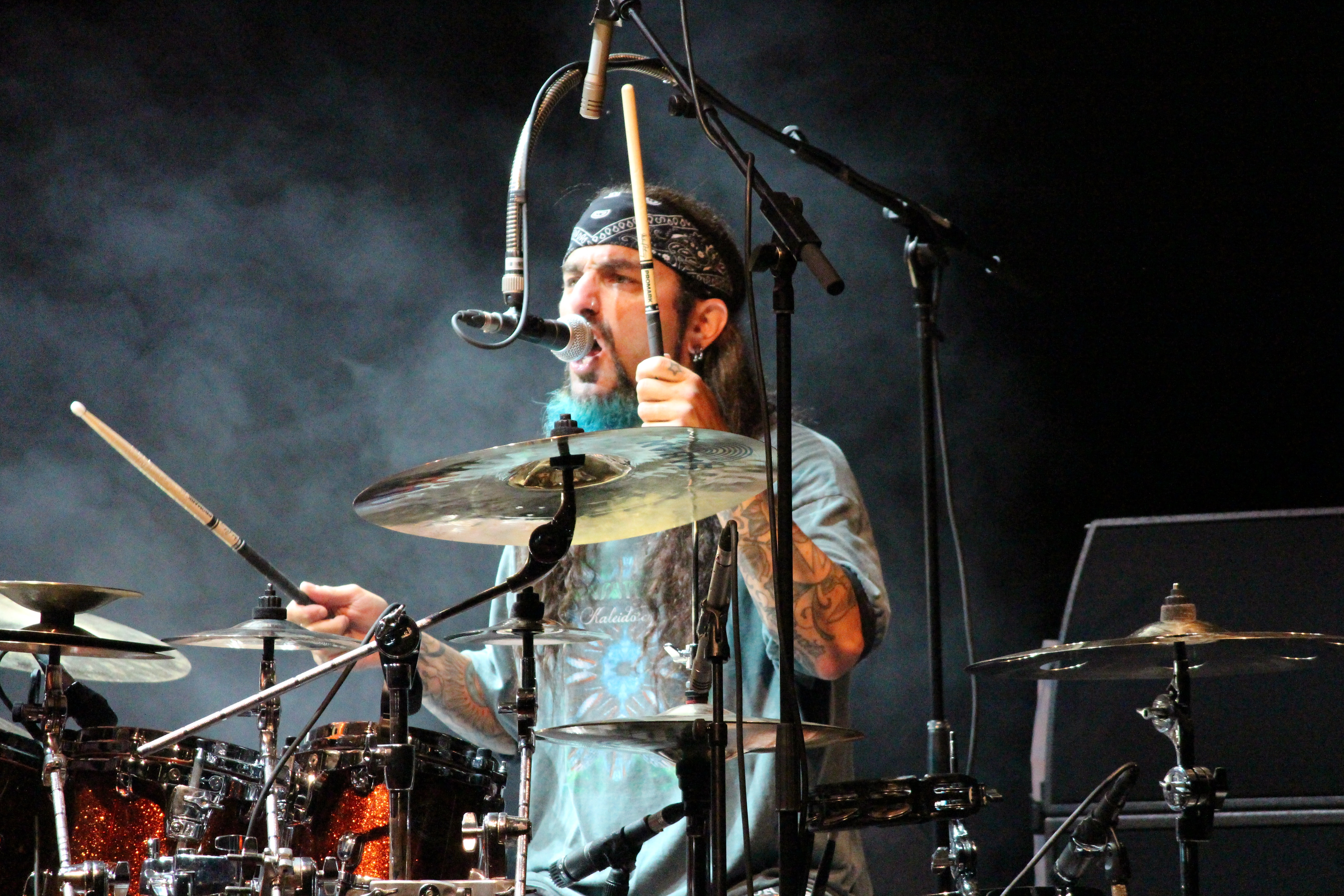 Transatlantic au Night of the Prog Festival, 18 juillet 2014